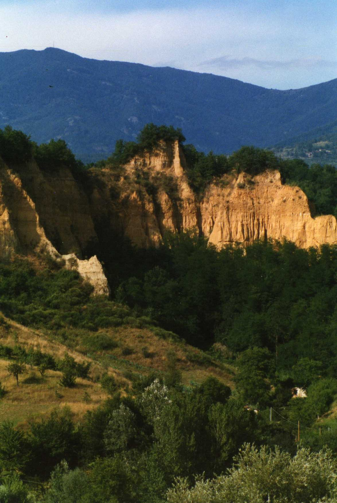 Faella and its hill: the balze